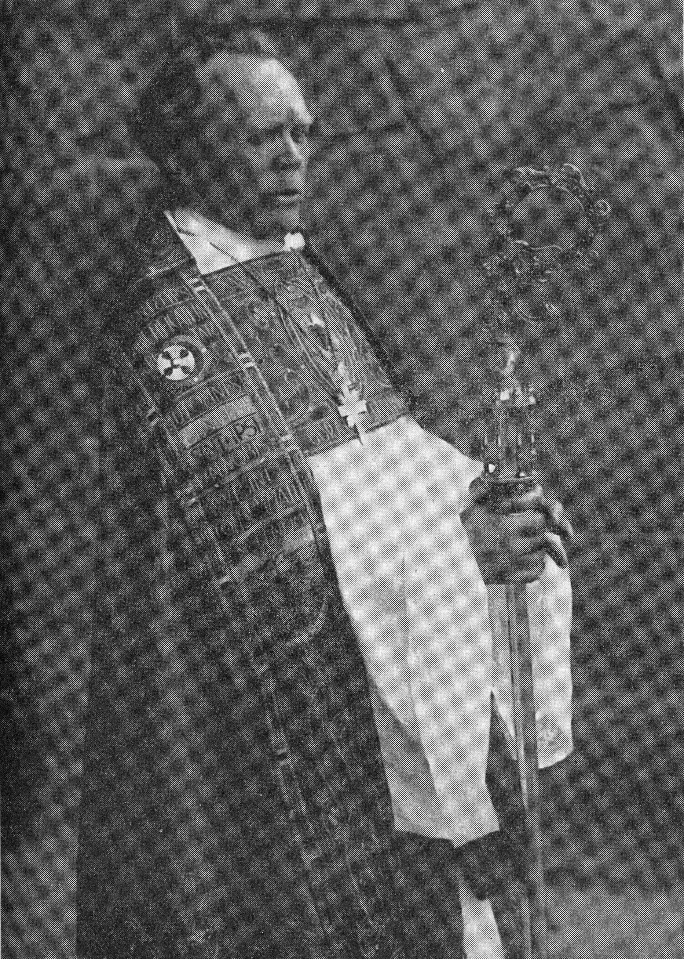 Prayer at the consecration of the Ansgar chapel on Björkö in 1930. The archbishopen wears the so called ekumenical pontificals, which he usually wore at consecrations and installations in later years.